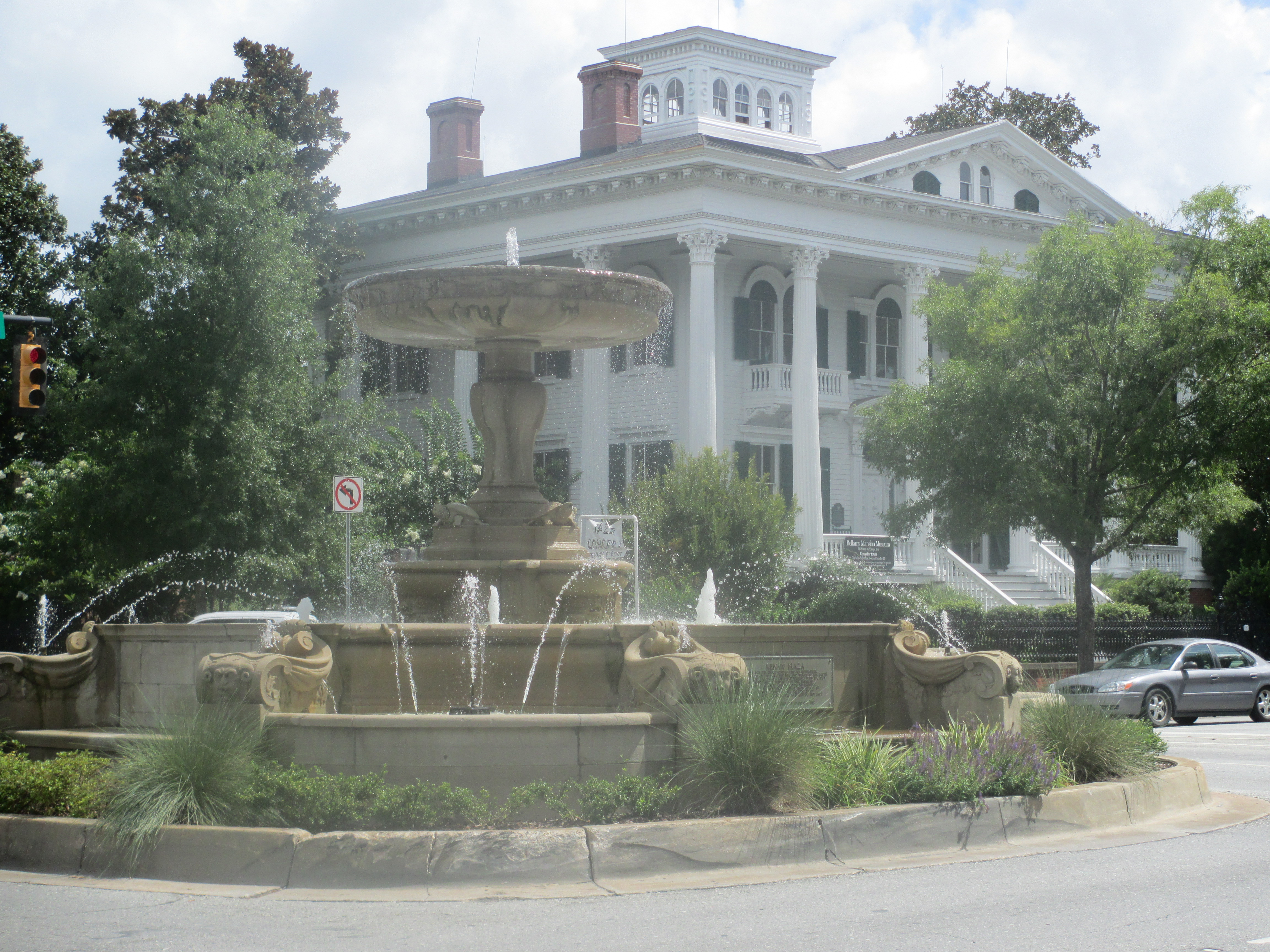 I took photo with Canon camera of Bellamy Mansion in Wilmington, NC.